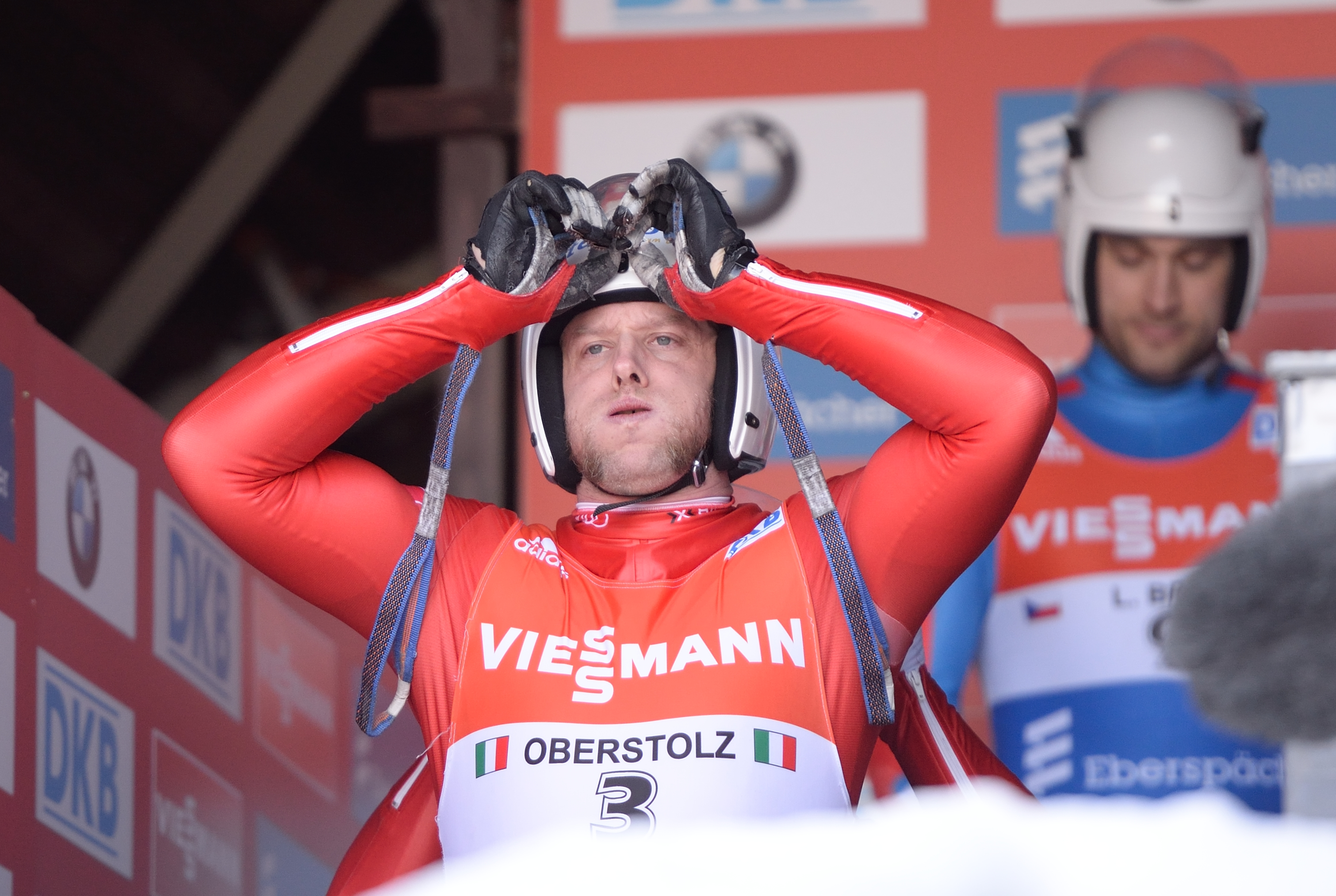 Luge world cup race season 2014/15 in Altenberg/Germany, 19th to 22nd Februar 2015. Day 1: training.